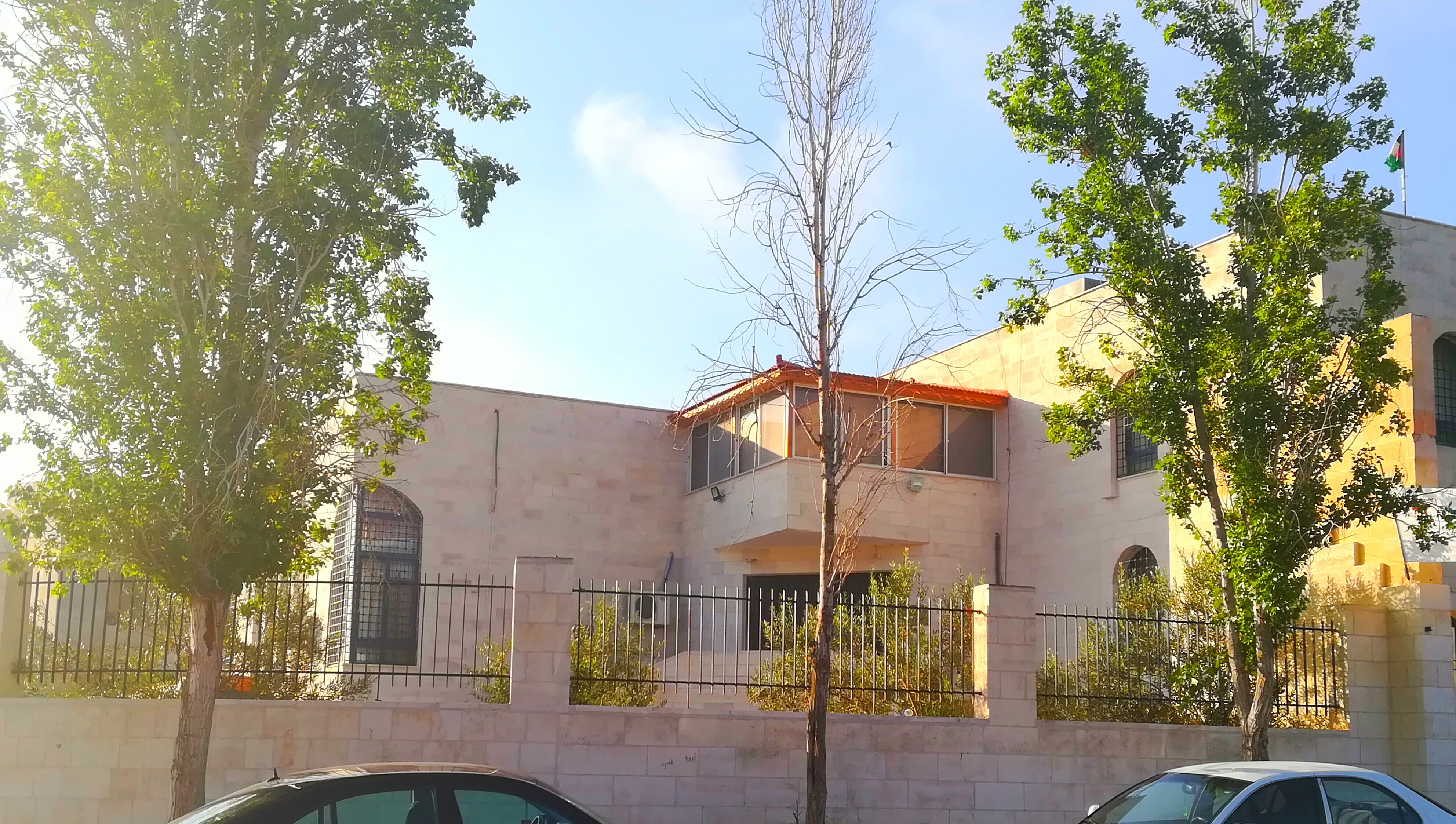 Malka village in northern Jordan